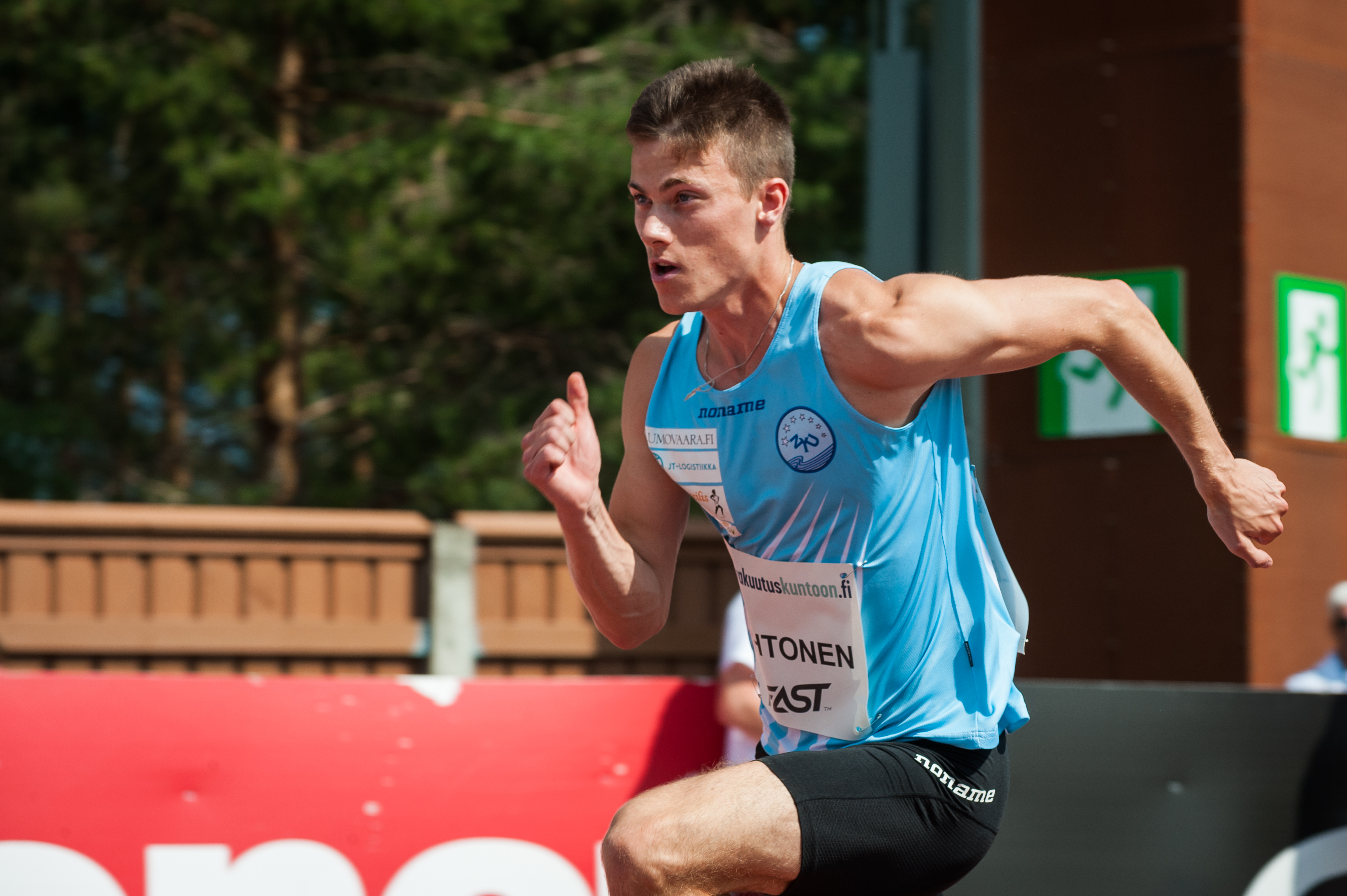 Men's 200 m competition at the 2018 Kalevan Kisat, the Finnish championships in athletics, in Jyväskylä, Finland.